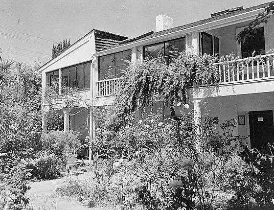 Larkin House and garden — 464 Calle Principal, Monterey (Monterey County, California) - (cropped). Historic American Buildings Survey—HABS image. (1959).